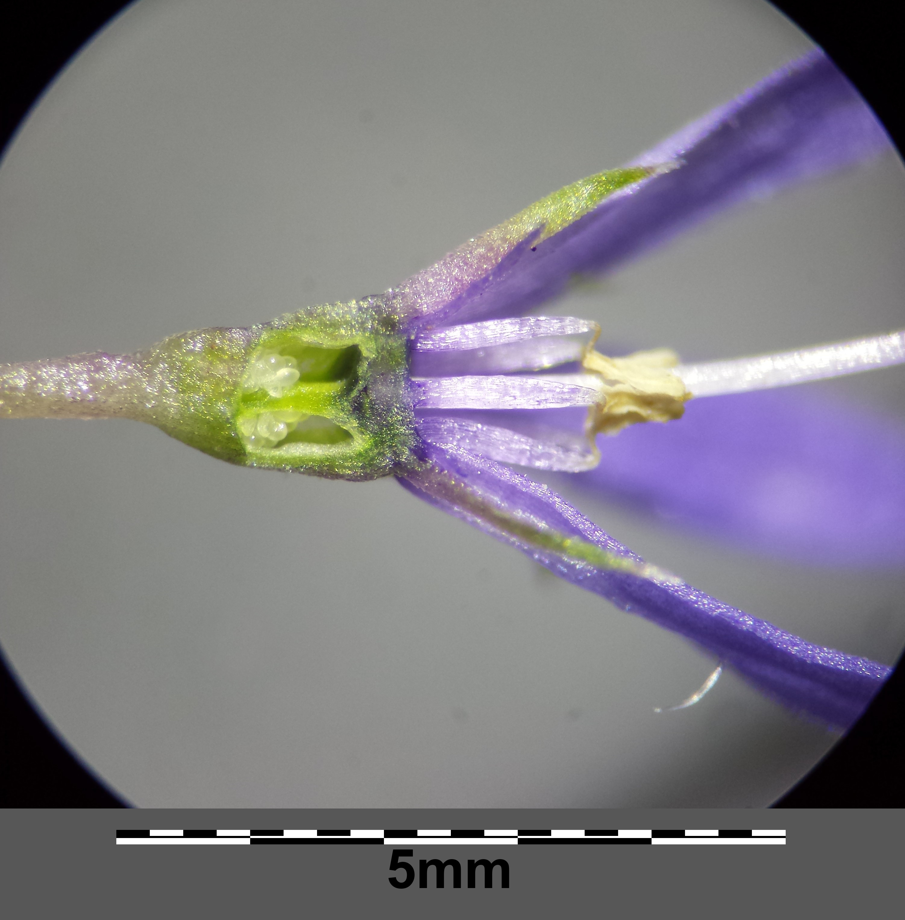 Flower (cut-through) Taxonym: Jasione montana ss Fischer et al. EfÖLS 2008 ISBN 978-3-85474-187-9 Location: next to Griesbach, Groß-Gerungs, district Zwettl, Lower Austria - ca. 800 m a.s.l. Habitat: wayside/slope